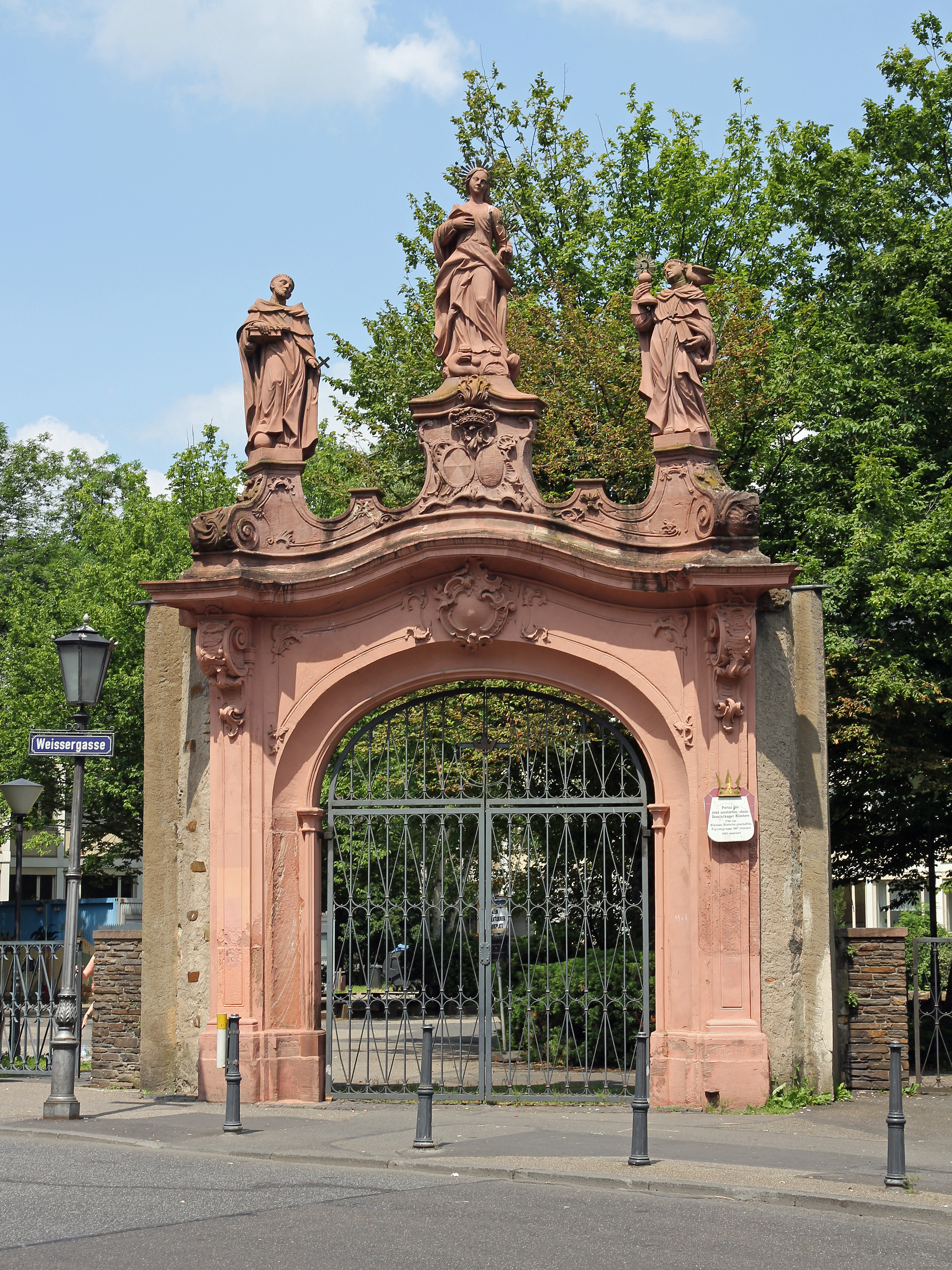 Preserved rococo portal of the destroyed Dominican monastery in Koblenz